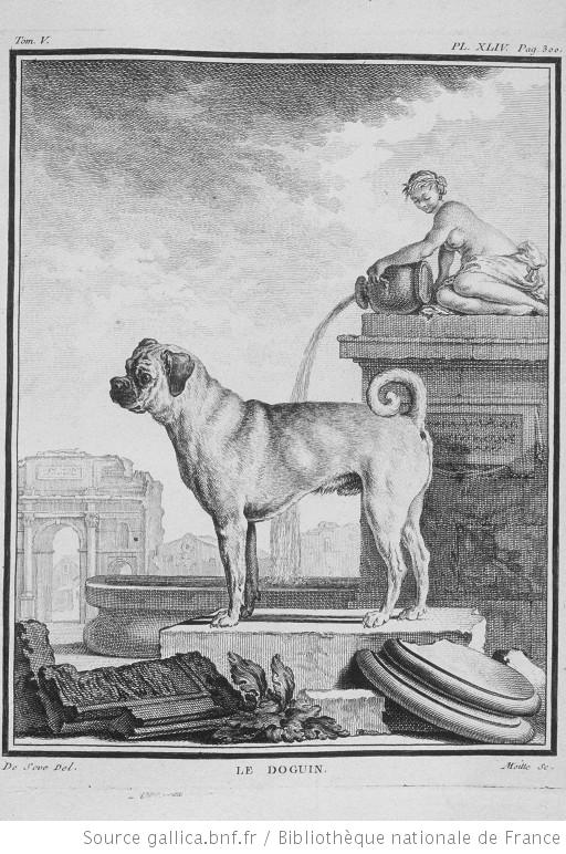 Pug (Doguin)